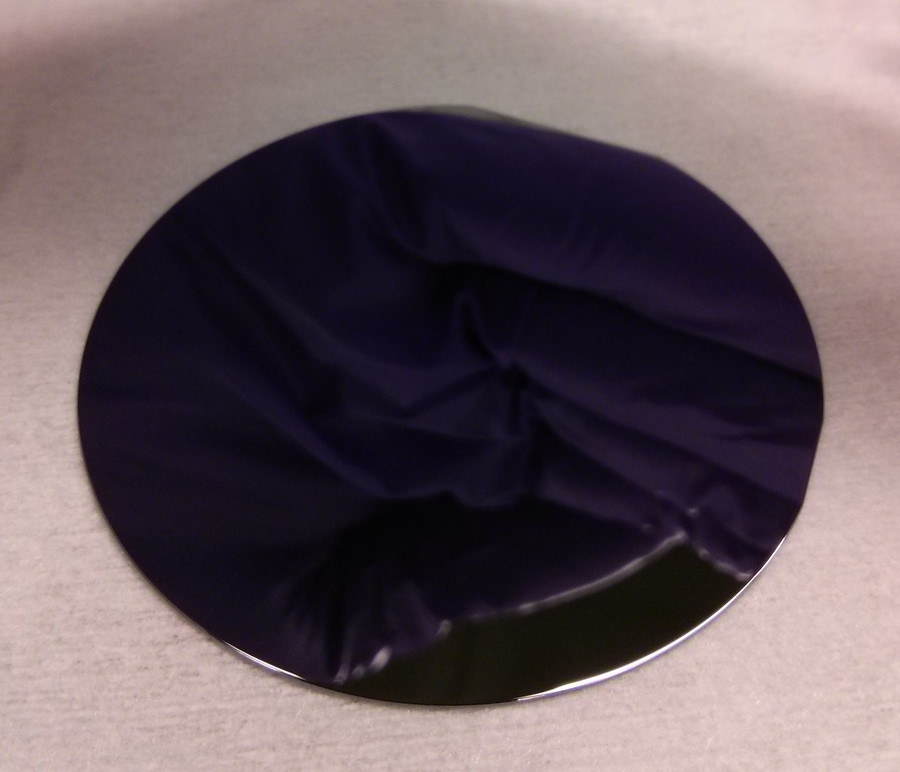 A pristine 2-inch single crystal gallium arsenide wafer with a (100) surface orientation. Purple features are a reflection of a nitrile glove.